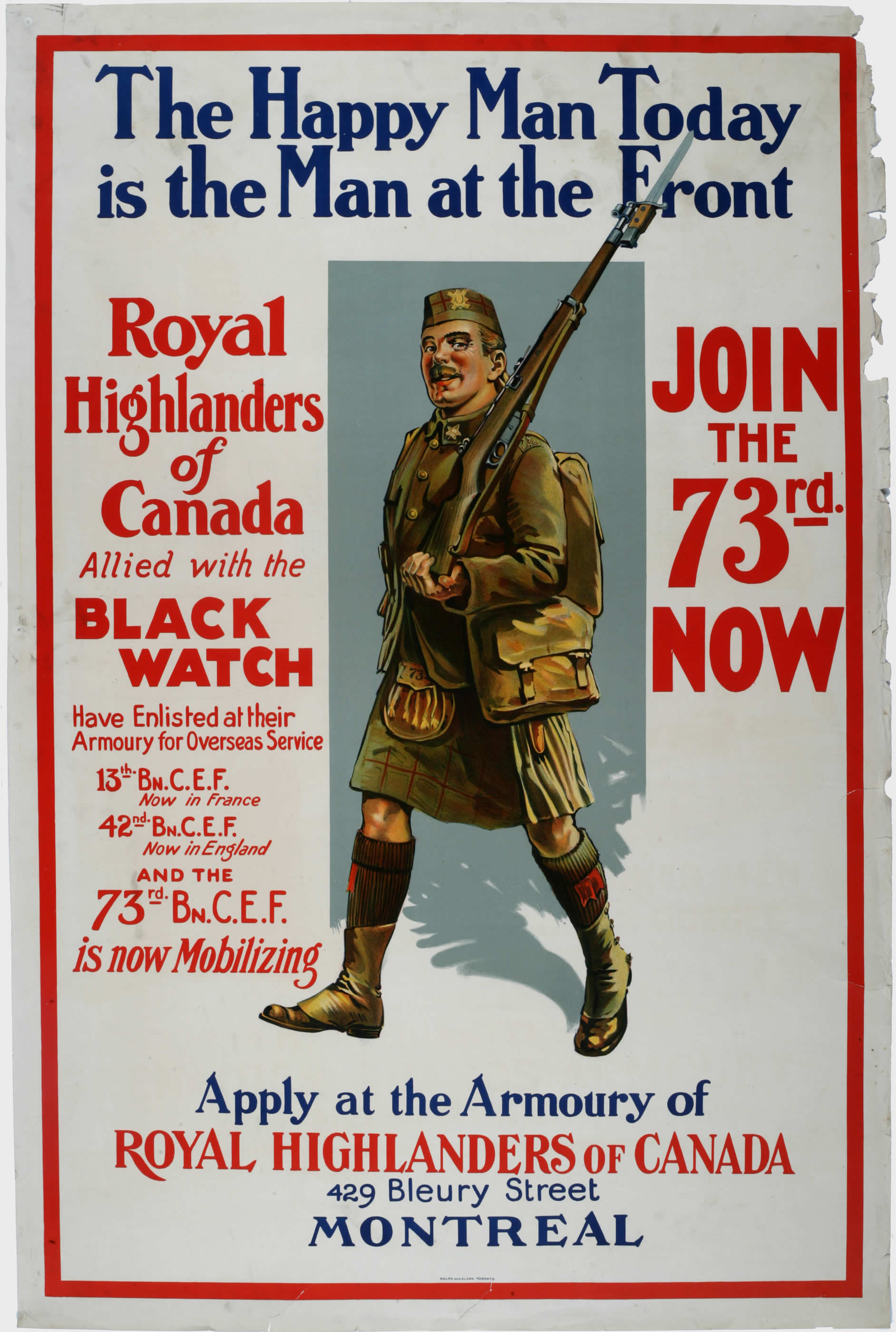 This poster for the 73rd Battalion, the Royal Highlanders of Canada, promises that the happy man today is the man serving at the front. Montreal, Canada’s largest city during the war, sent several infantry battalions overseas. The 73rd Battalion served with the 4th Division from 1916 to its demobilization in 1919.